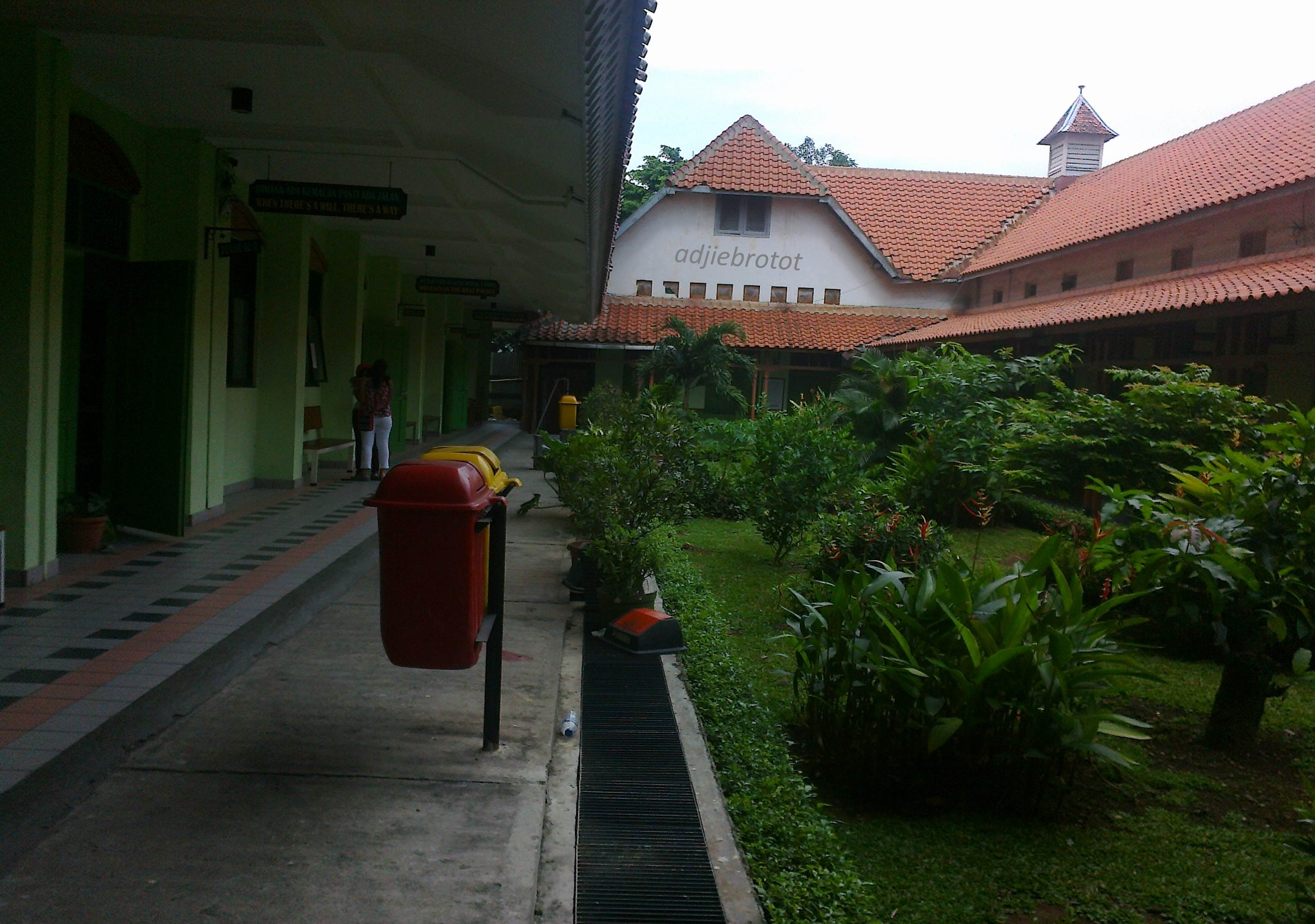 Small Park on State Junior High School 1 Jakarta by Adjiebrotot